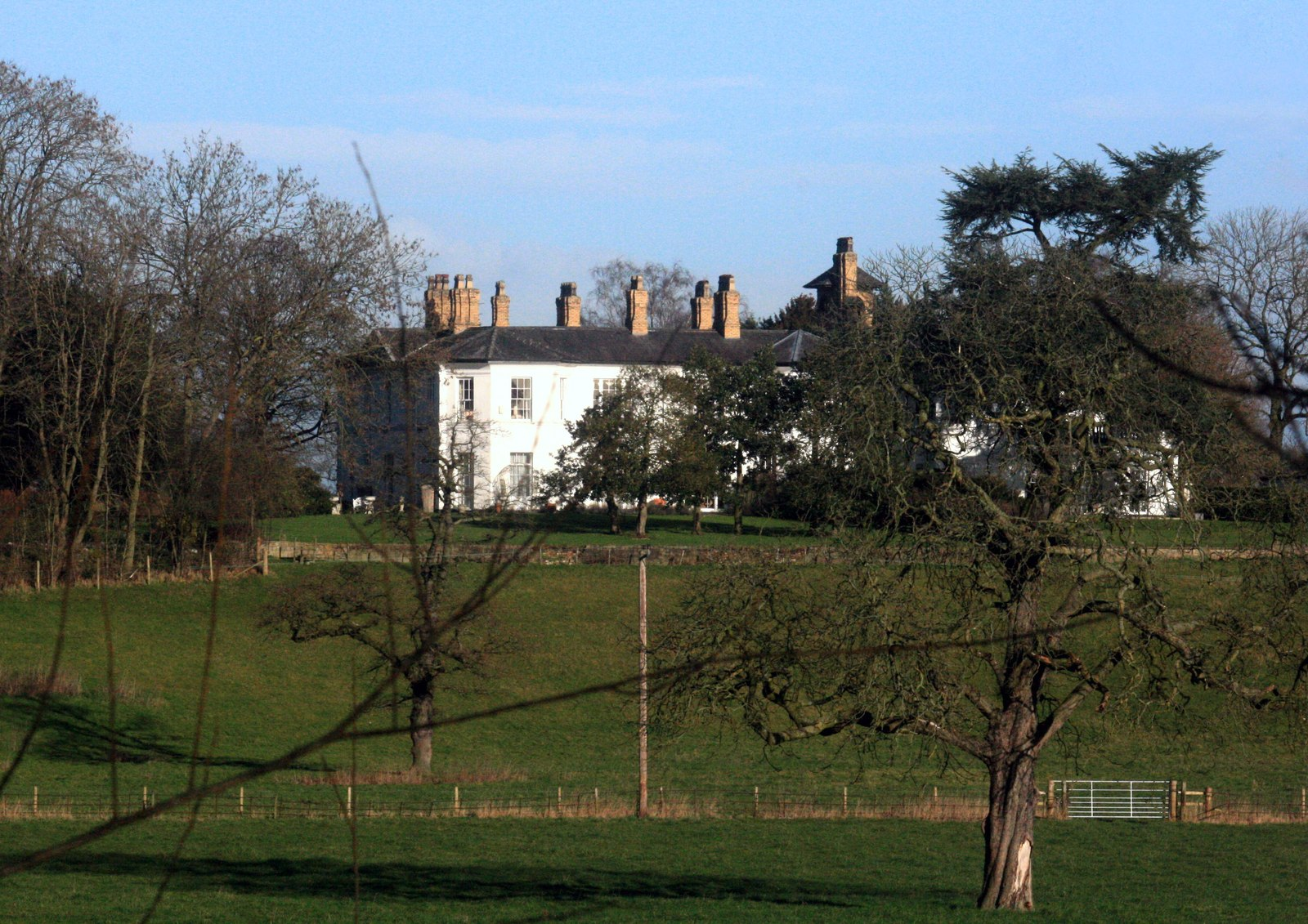 The Many Chimneys of Ravenscroft Hall